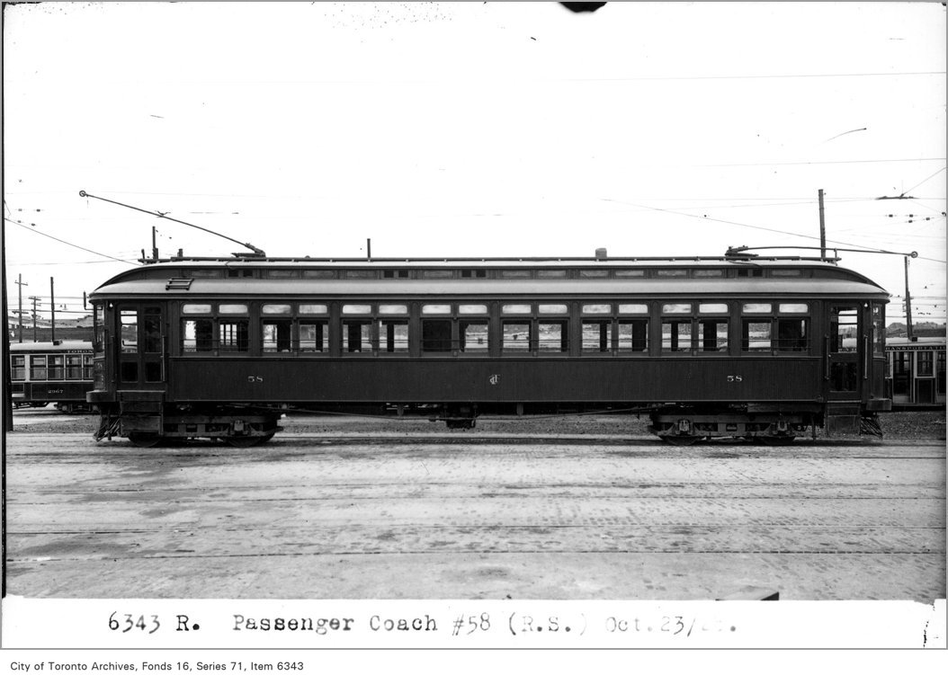 TTC radial car 58 which served the Lake Simcoe radial line.